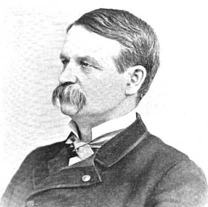 E. Henry Powell, who enlisted in the 10th Vermont Infantry and became a Lieutenant Colonel in the 10th U.S. Colored Troops